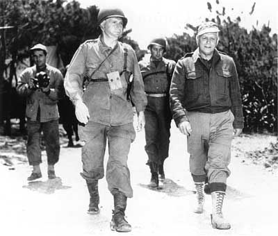 In early April, Tenth Army commander LtGen Simon B. Buckner, Jr., USA, left, and Marine MajGen Roy S. Geiger, Commanding General, III Amphibious Corps, met to discuss the progress of the campaign. Upon Buckner's death near the end of the operation, Geiger was given command of the army and a third star.